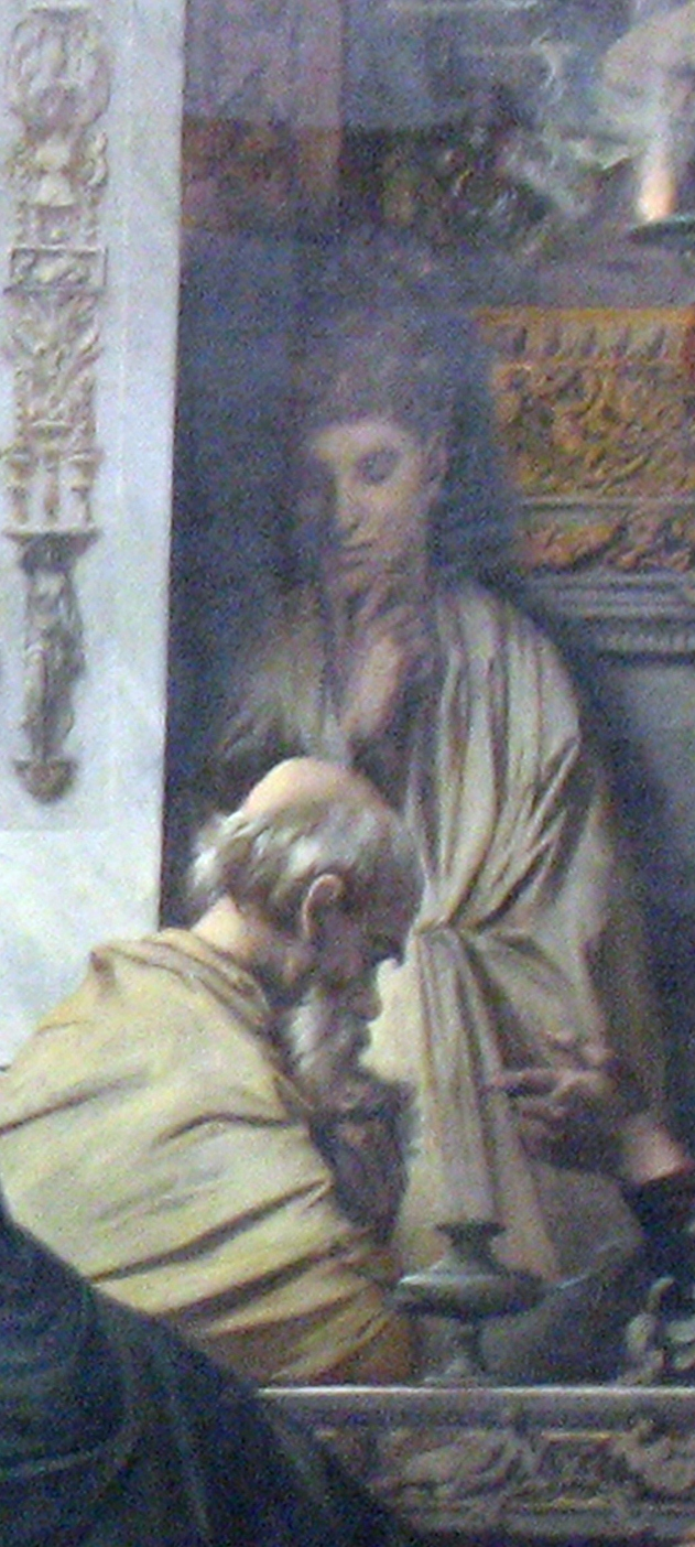 Cropped version of The Banquet (after Plato). second version